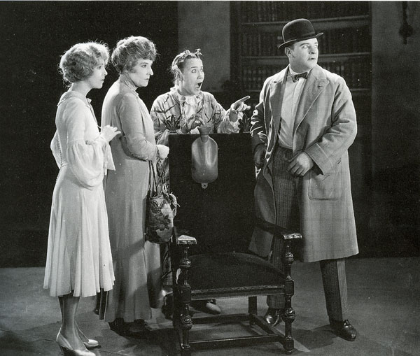 L. to R. : Jewel Carmen, Emily Fitzroy, Louise Fazenda, and Eddie Gribbon in The Bat (1926) - cropped screenshot